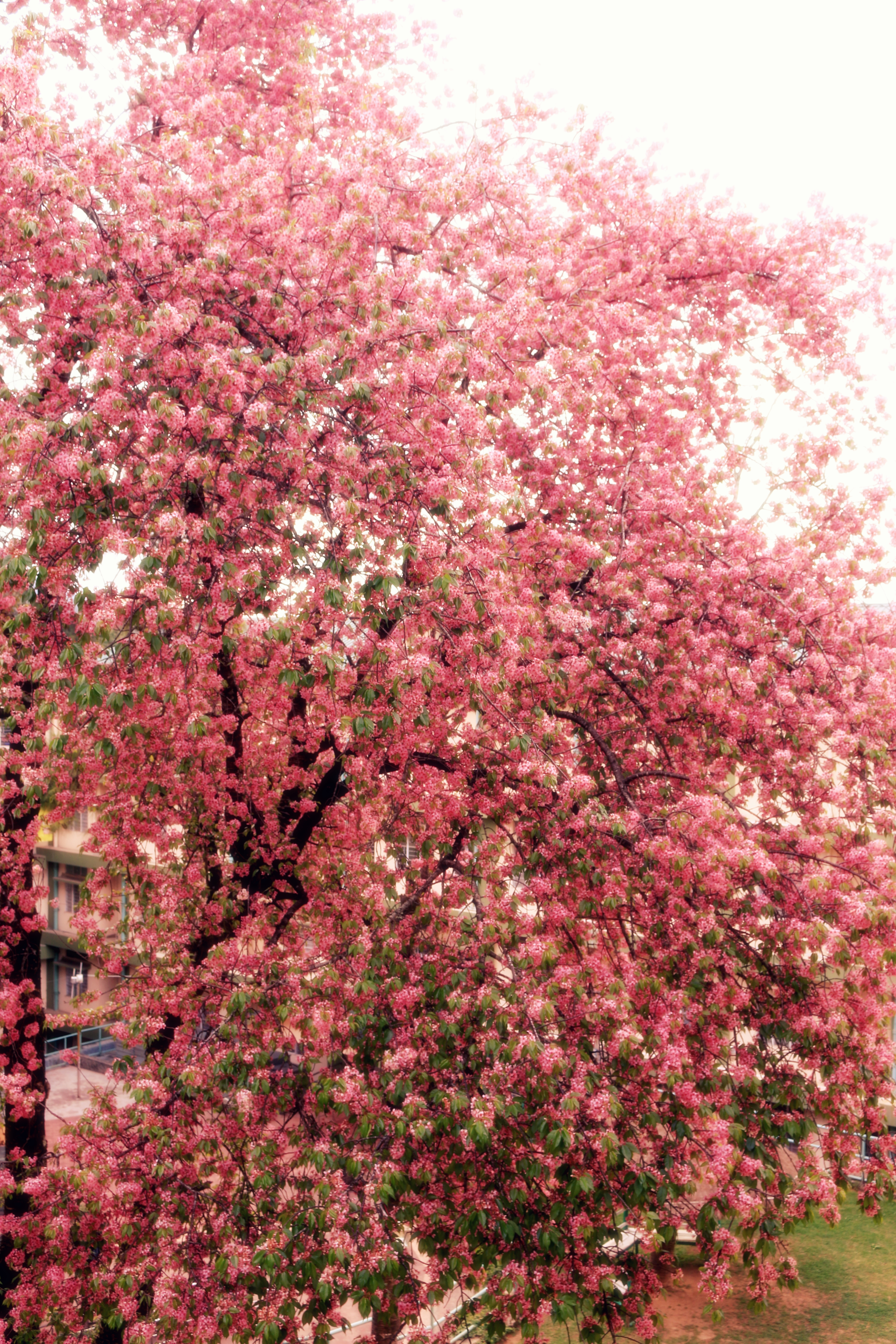 Cherry_Blossom_hostel_rooms